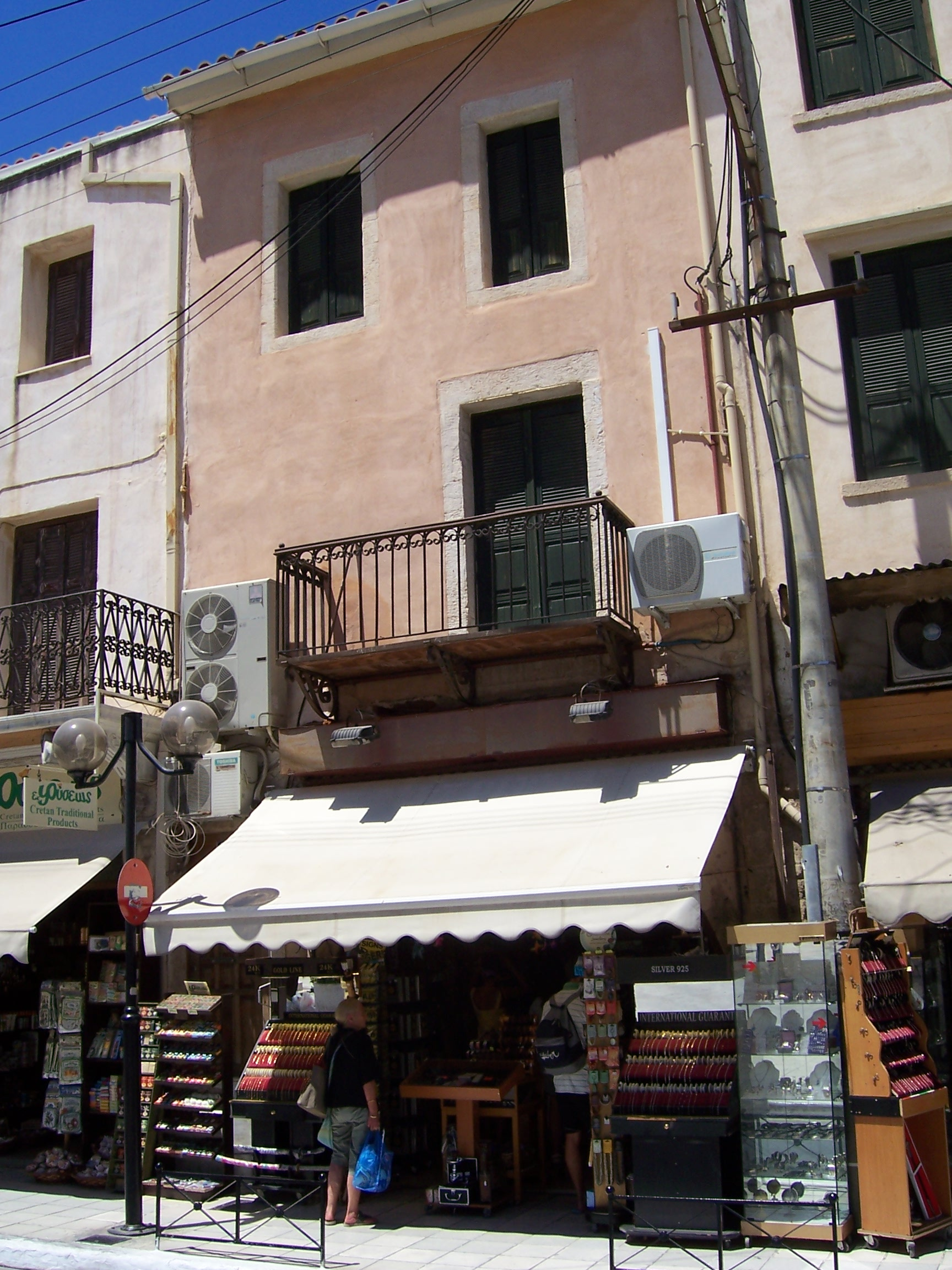 Eleftherios Venizelos' house in Chania. Crete (56 Halidon Street)